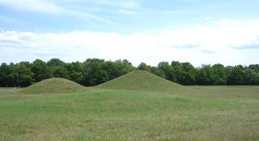 Ohio - Chillocothe - Hopewell Culture National Historical Park. Very small view of 1,200 acre park. By:Mike Sharp 07-01-07.